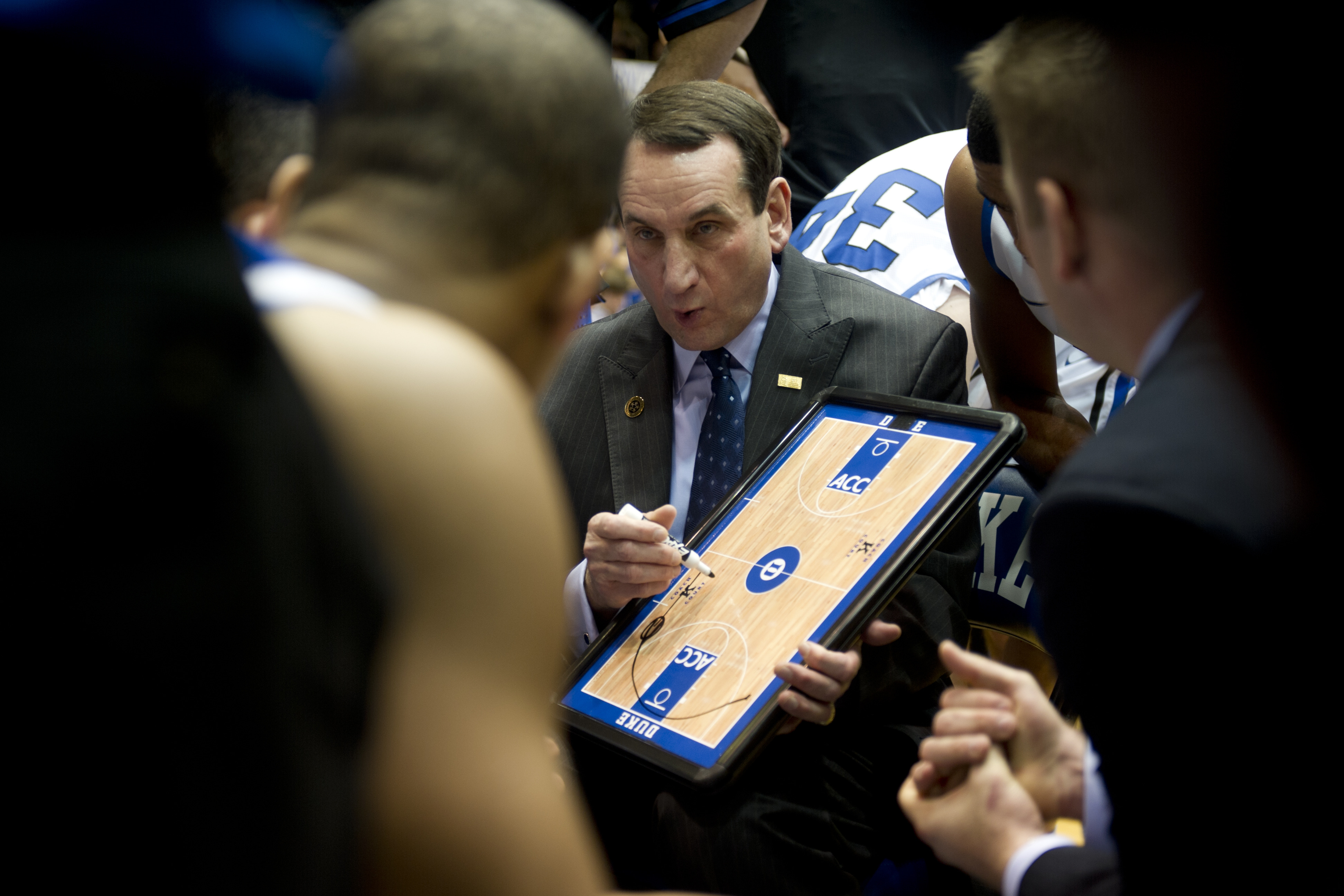 Duke University head coach Mike Krzyzewski talks to his team during a timeout while during a game against the University of Virginia at Duke University, NC, Jan. 12, 2012. DoD photo by D. Myles Cullen